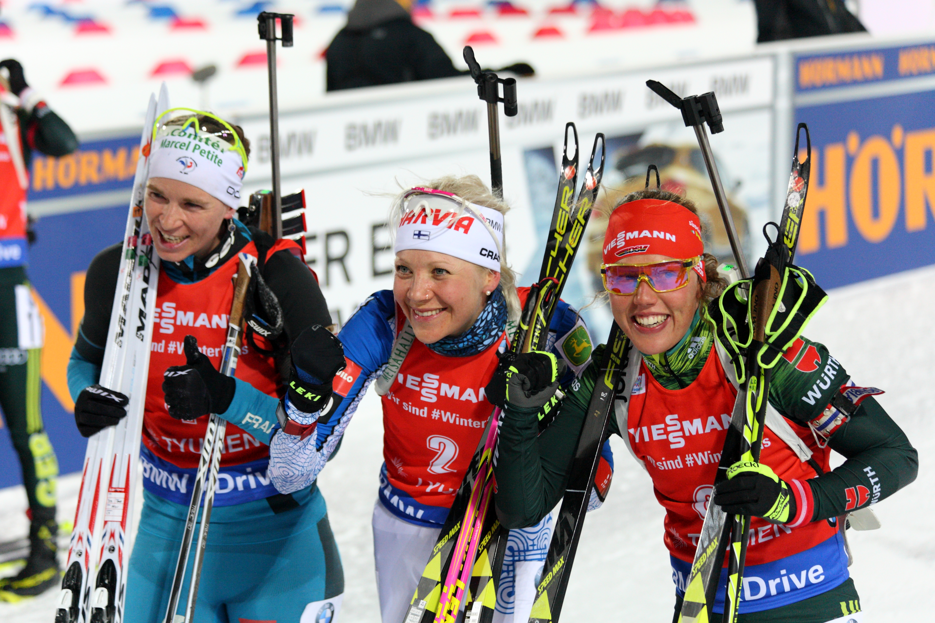 BMW IBU World Cup Biathlon 9 #TMN18 Tyumen 2018-03-24 Women 10km Pursuit